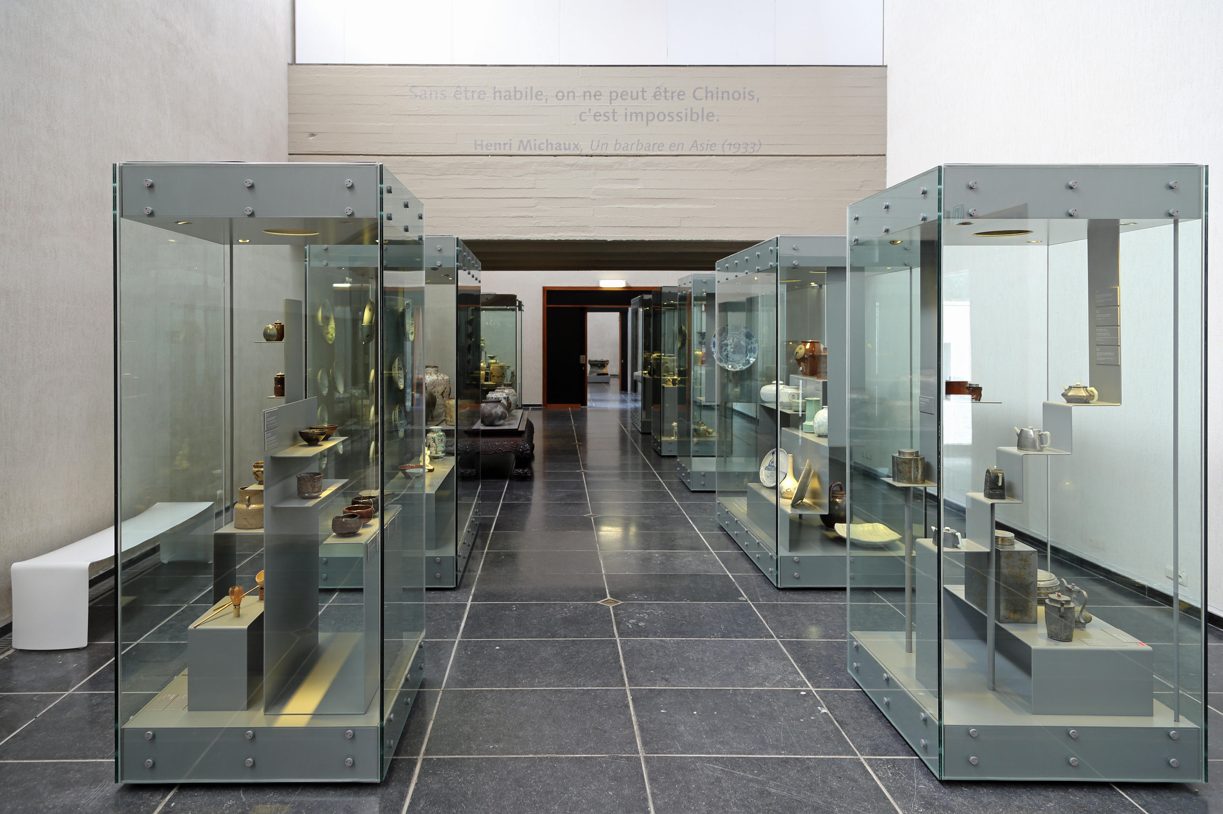 Morlanwelz (Belgium): Royal Museum of Mariemont - Far East section